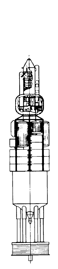 Configuration of an Orion nuclear rocket for a 8-men Mars surface mission